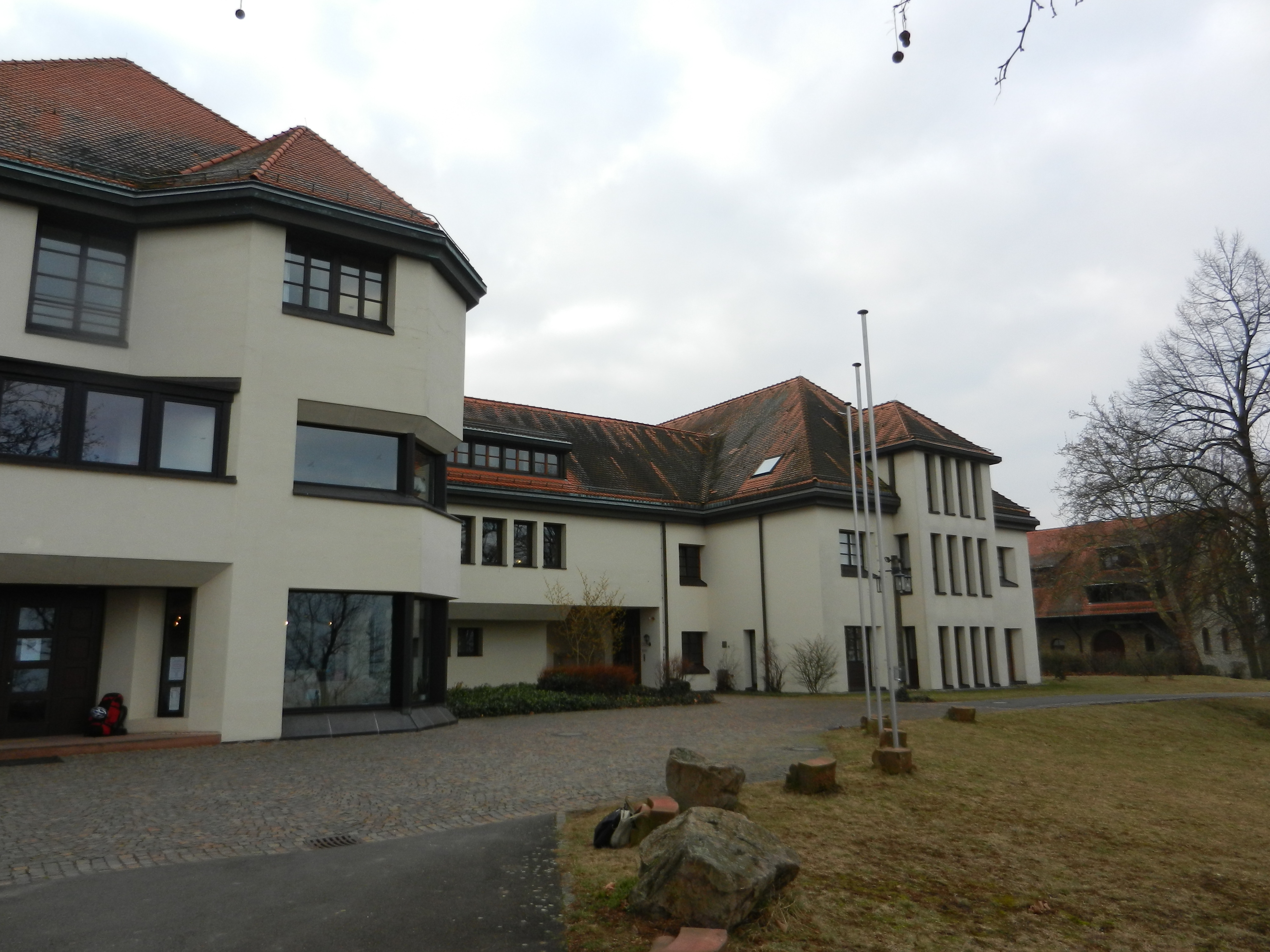 Priorate Jakobsberg (Germany), educational institution house and youth center